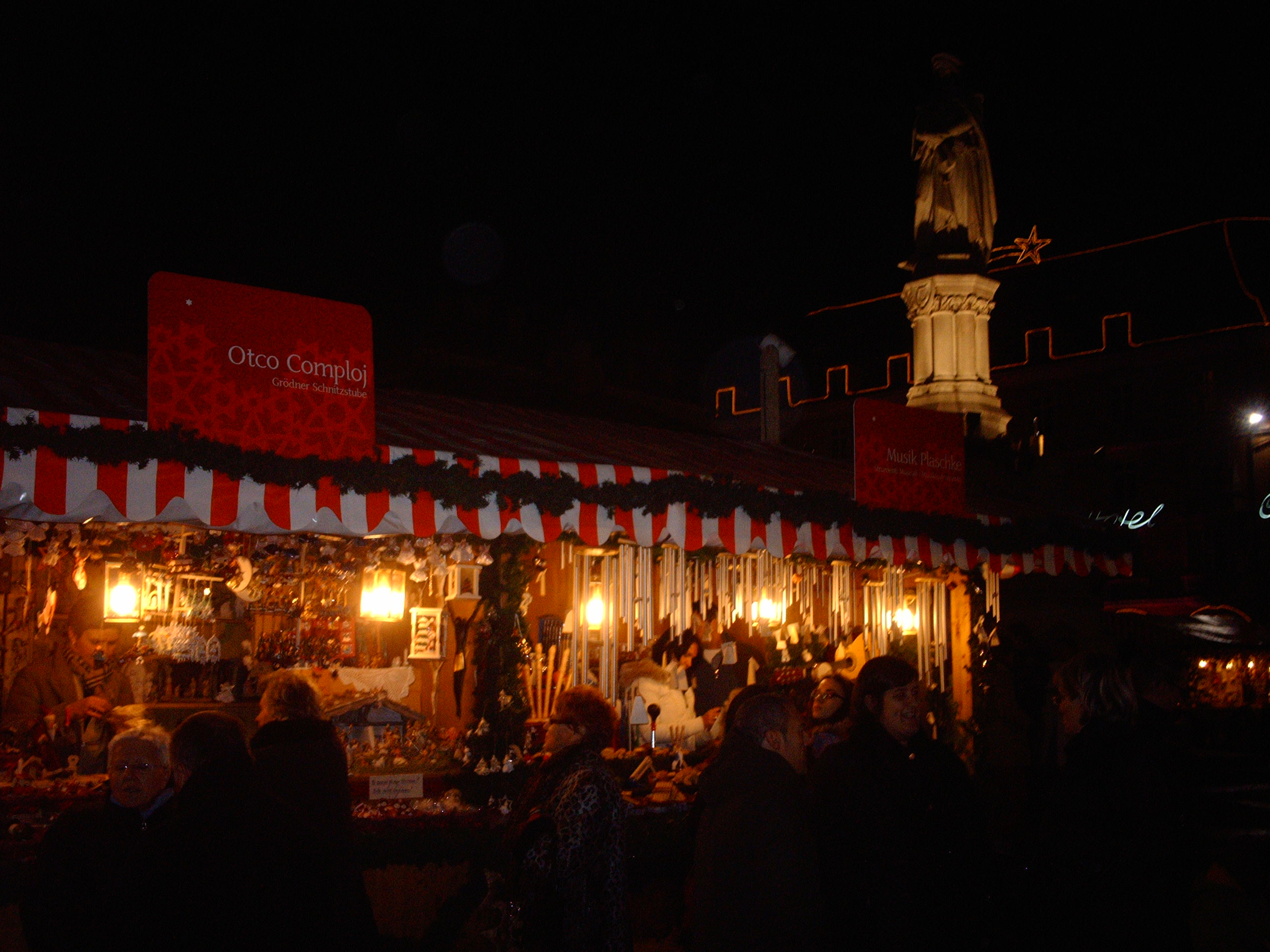 Bolzano/Bozen Christmas market 2006